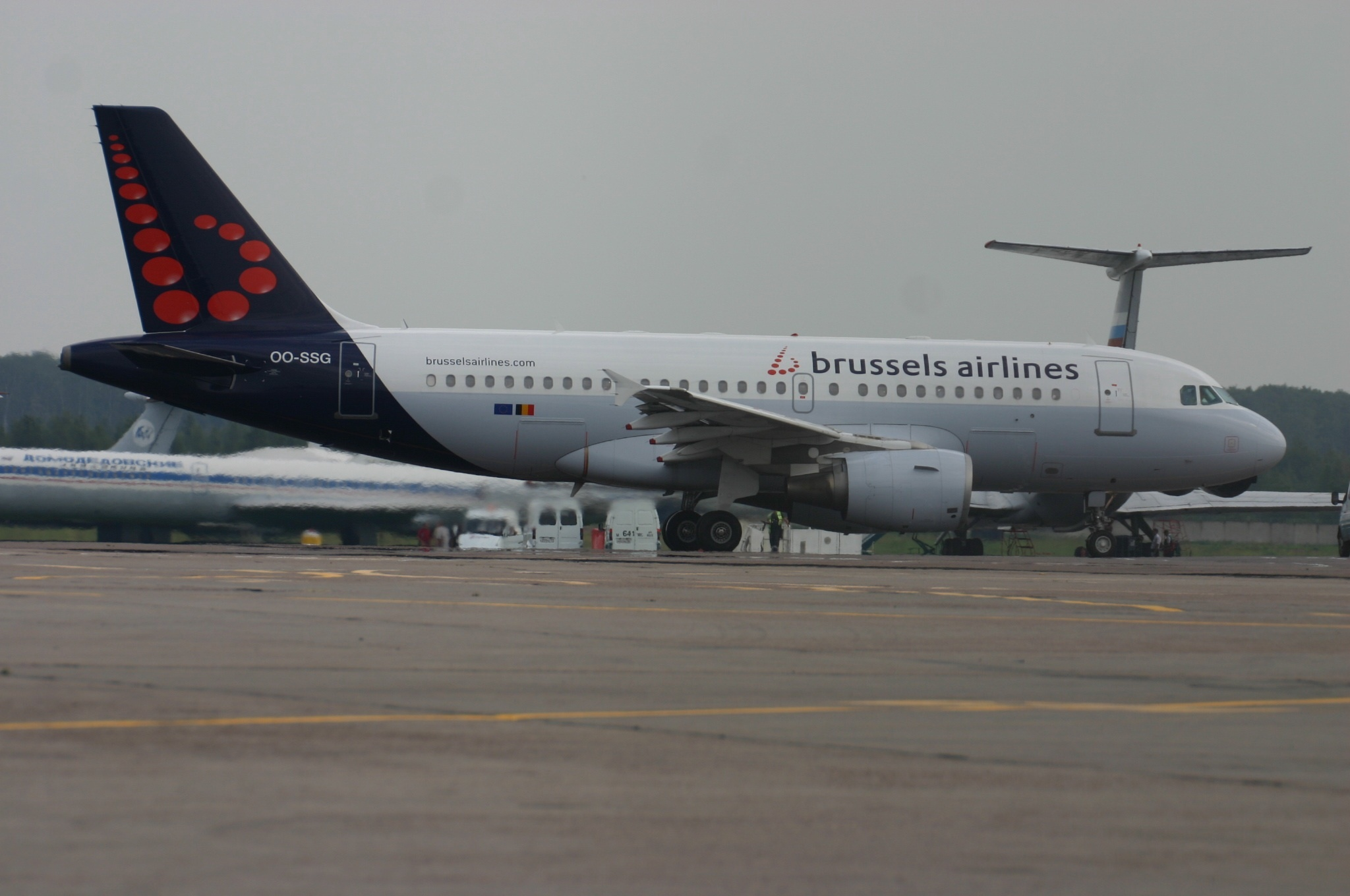 At Moscow Domodedovo